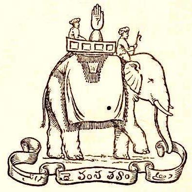 Coat of arms of the Indian native state of Vektagiri, Madaras Presidency